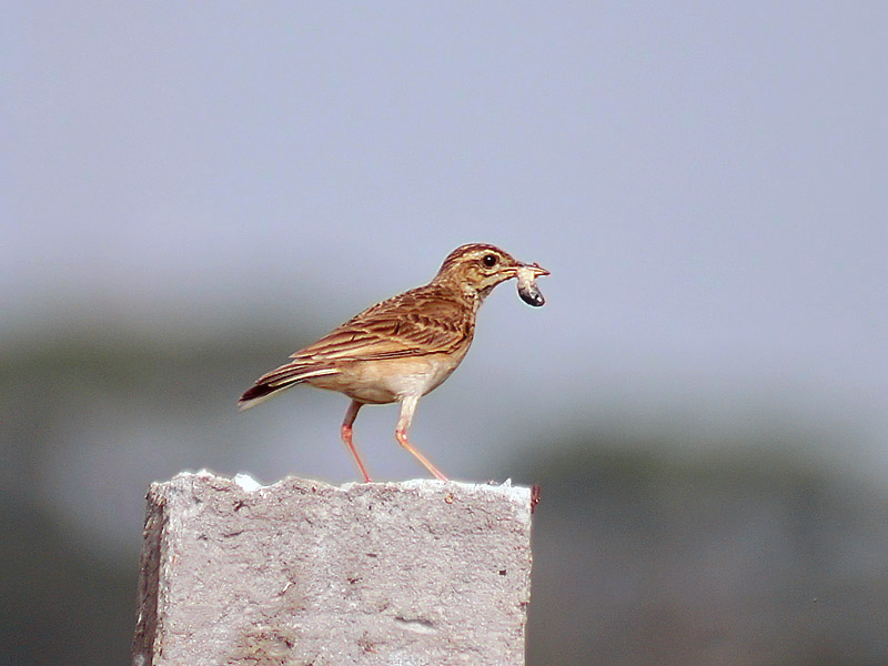 Paddyfield Pipit Anthus rufulus in Kolkata, West Bengal, India.